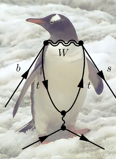 A penguin diagram as originally drawn by John Ellis